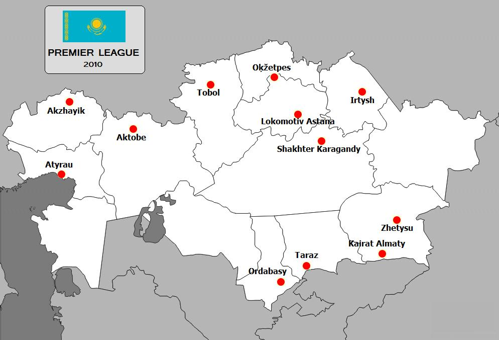 2010 Kazakh Premier League teams geographic distribution.